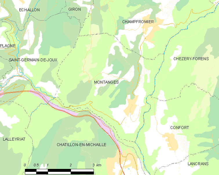 Map of French commune: Montanges Map commune FR insee code 01257.png